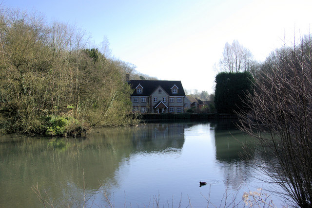 Basted Mill Pond photographed by Robin Webster at .uk (photo no. 327800) shared under Creative Commons 2.0 licence. Illustrates mill pond created for Basted Mill on the River Bourne, Kent.